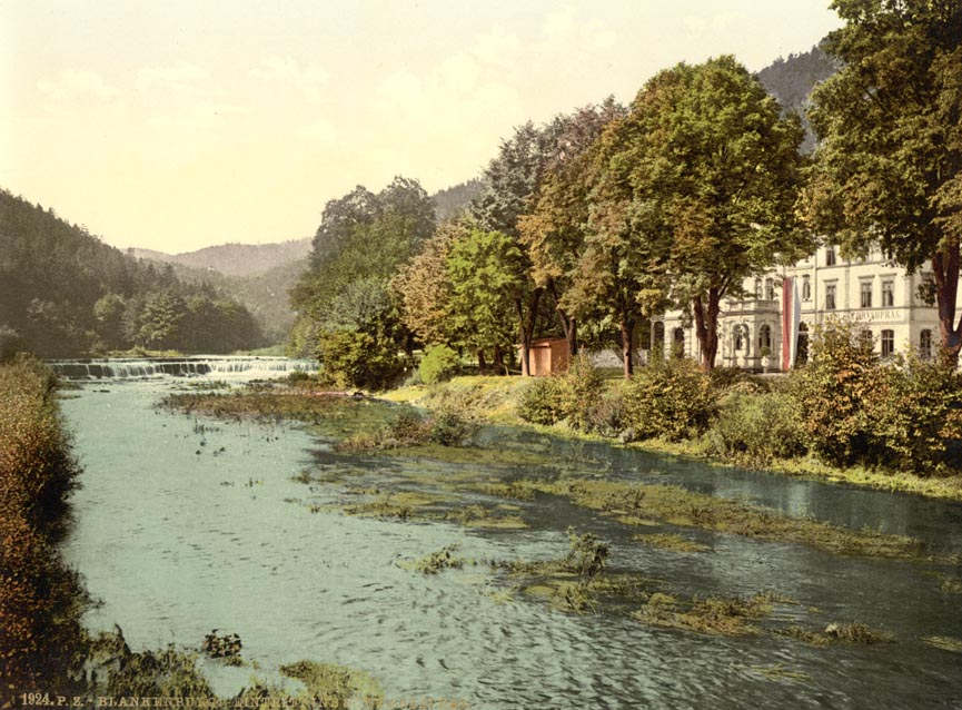 Entrance to Schwarza Valley Blankenburg Thuringia Germany. At the right, the former Hotel Chrysopras.